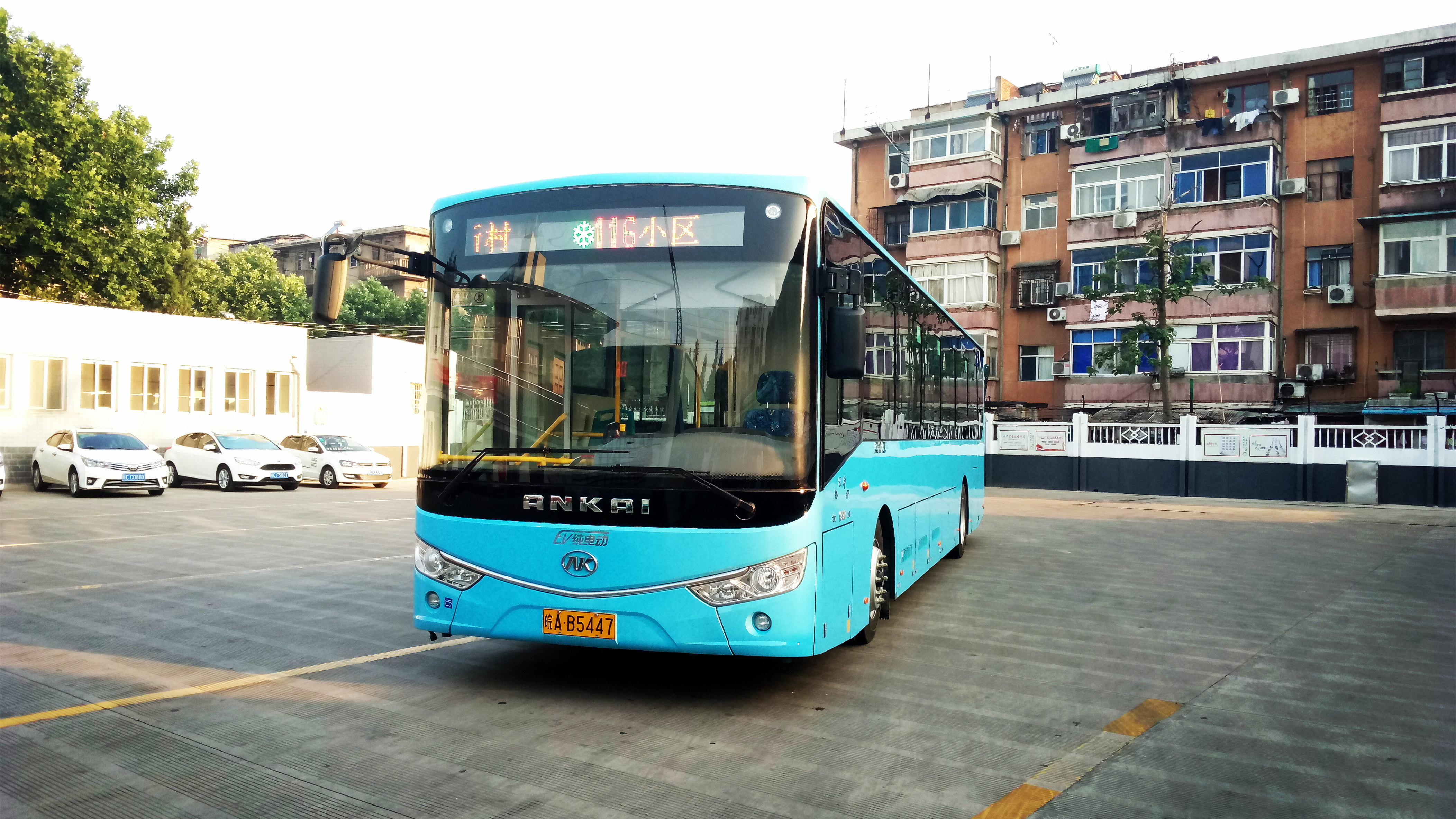 Bengbu Bus No.116 with ANKAI Electric Bus